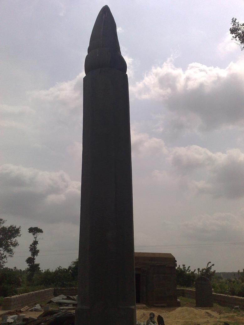 This pillar contains inscriptions written vertically in Sanskrit and indicates that Mayurasharma was the founder of the Kadamba dynasty. It is found in the village of Talagunda, Shimoga district, Karnataka, India